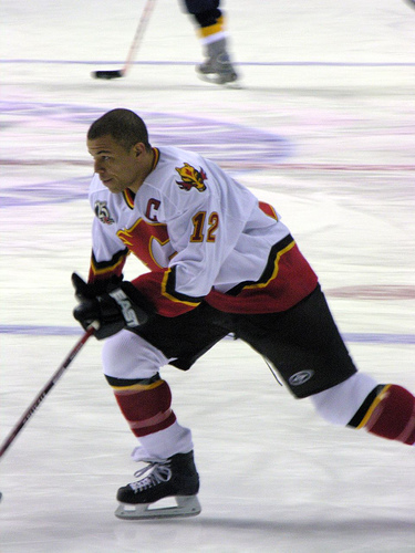 Jarome Iginla